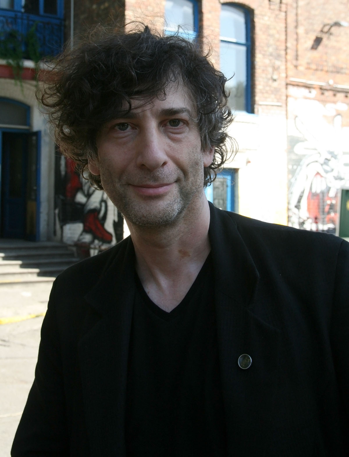 Neil Gaiman accompanying Amanda Palmer for her concert at the Arena in Vienna, Austria.